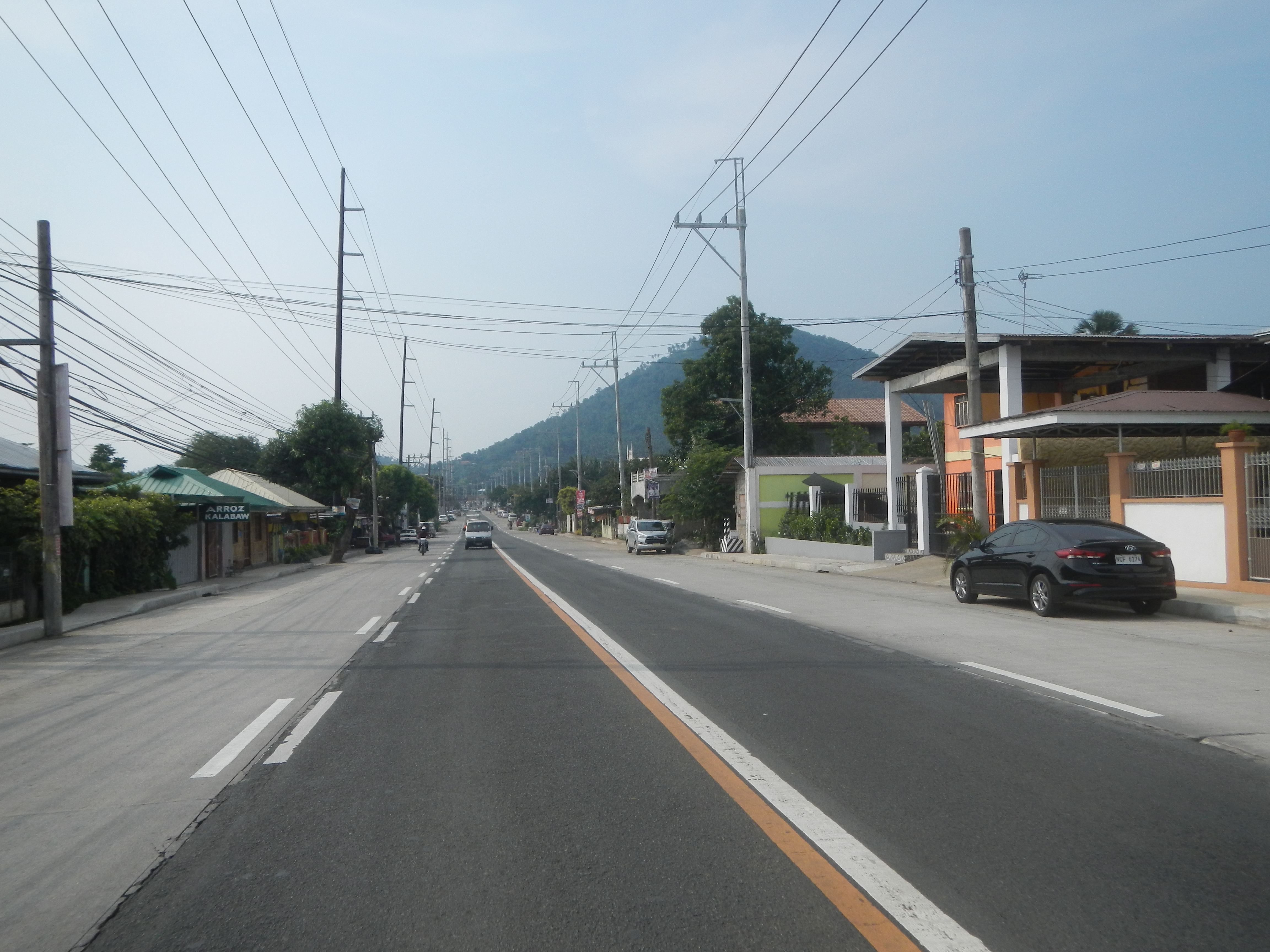 Calauan-San Pablo Road M. Marfori Avenue from Calauan Pineapple Plaza - Centro - Junction Calauan Poblacion-Victoria Road Barangays Balayhangin, Calauan, Laguna 14.1298, 121.3164 Imok, Calauan, Laguna 14.1131, 121.2989 Calauan,_Laguna bounded by List of barangays in Laguna (province) Category:Barangays of San Pablo, Laguna Barangays San Mateo, San Pablo San Mateo, San Pablo, Laguna 14.1041, 121.3053 San Marcos, San Pablo, Laguna 14.0998, 121.3188 Santa Maria Magdalena San Pablo, Laguna along Bay–Calauan–San Pablo Roadfrom Calamba–Los Baños Expressway to Calauan - Victoria Road interconnecting a national road at Los Baños-Bay Road of the Calamba–Pagsanjan Road surrounded by Bay River Philippine highway network (Note: Judge Florentino Floro, the owner, to repeat, Donor Florentino Floro of all these photos hereby donate gratuitously, freely and unconditionally Judge Floro all these photos to and for Wikimedia Commons, exclusively, for public use of the public domain, and again without any condition whatsoever).